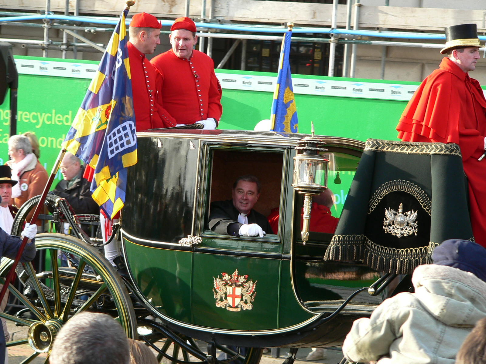 Lord Mayor's Show 2005